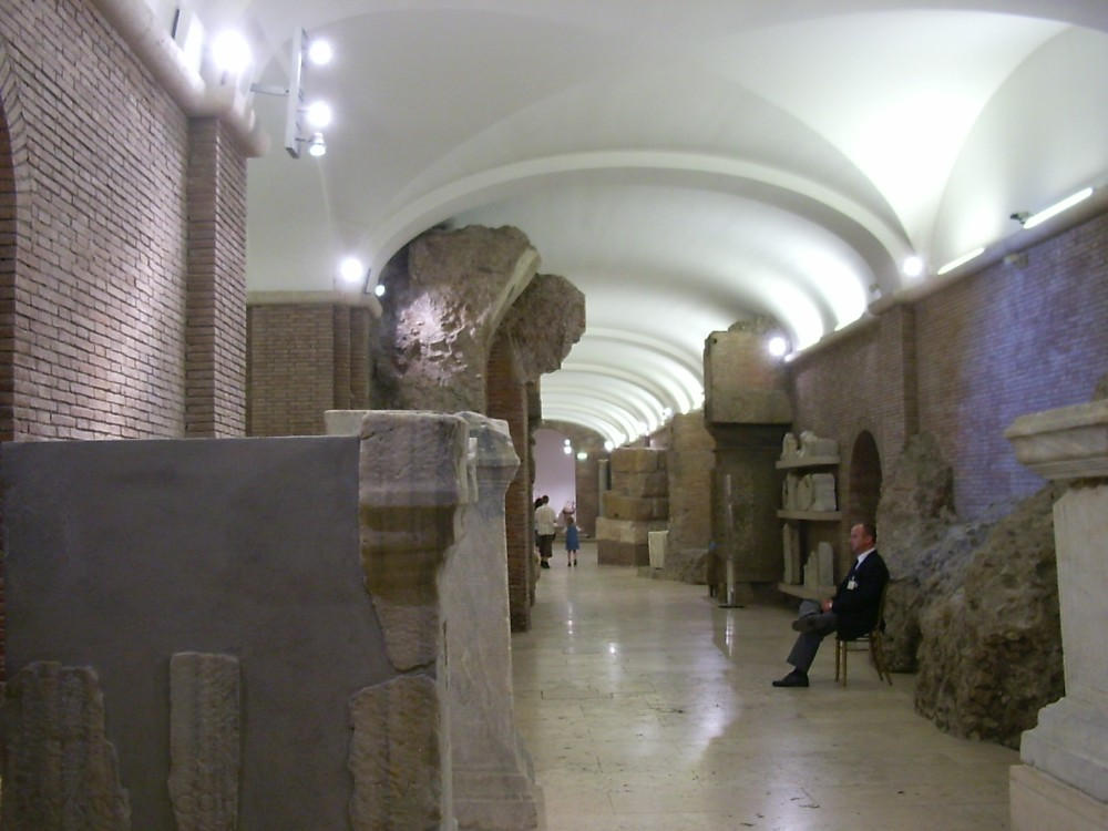 Interior of the Tabularium